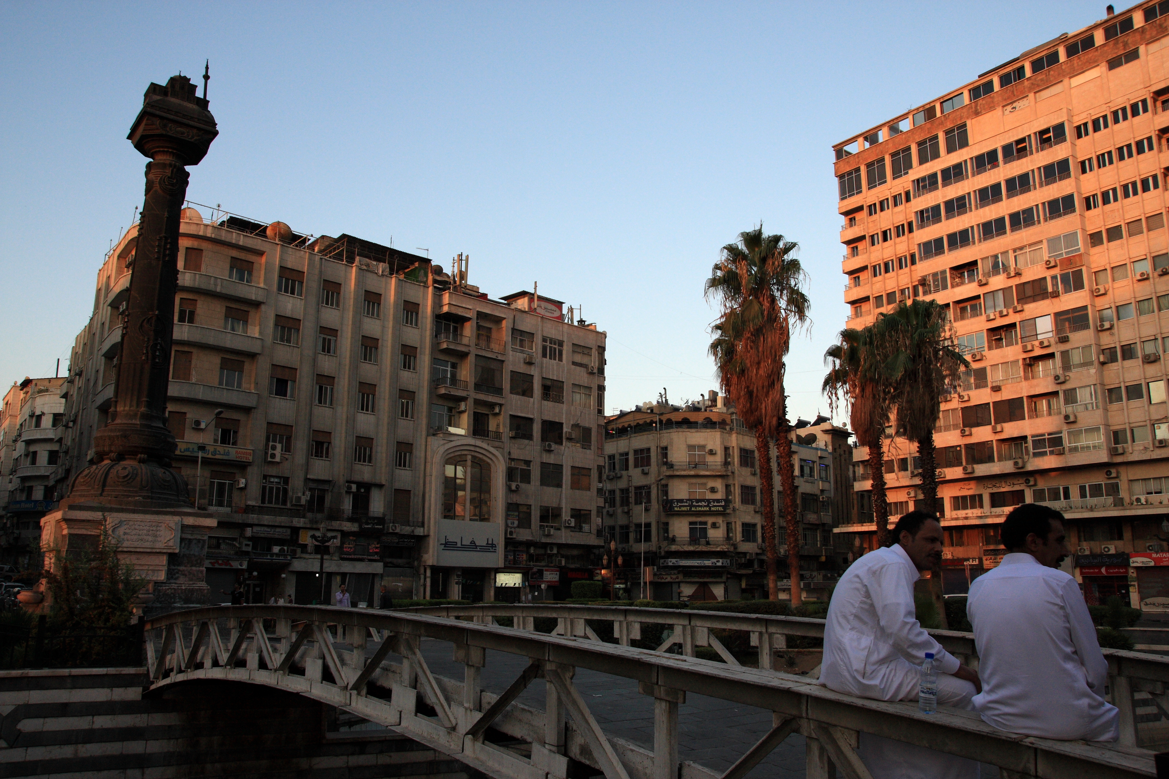 Marjeh square tower, Damascus.